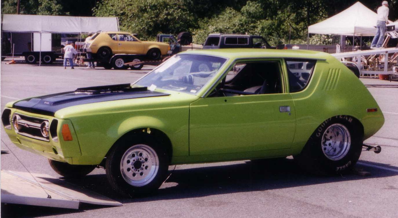 1976 AMC Gremlin that has been modified into a "tubbed" drag race car. Powered by an AMC engine and finished in American Motors' unique "Big Bad Green" paint. Picture taken in Maryland.